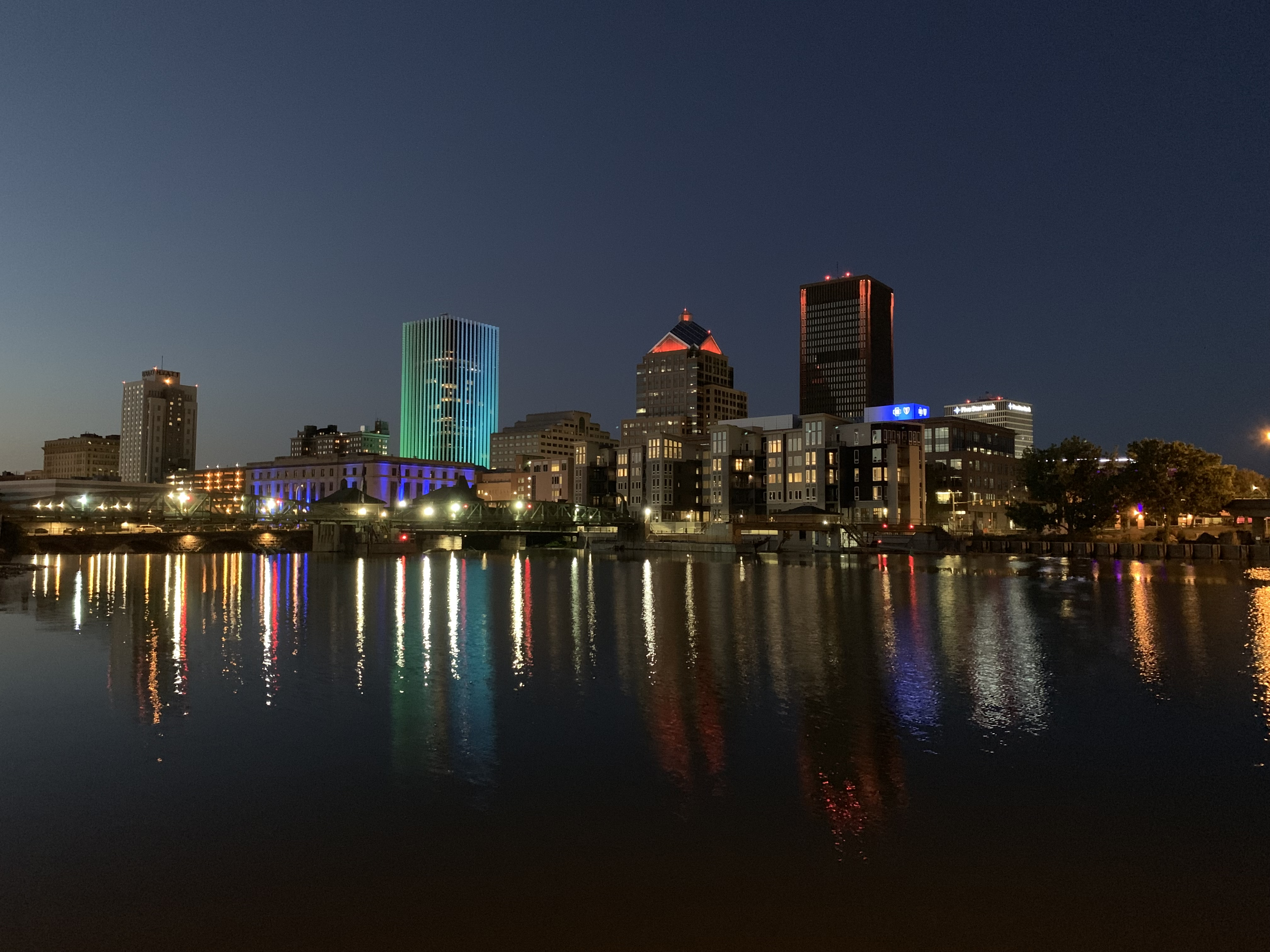 August 2019